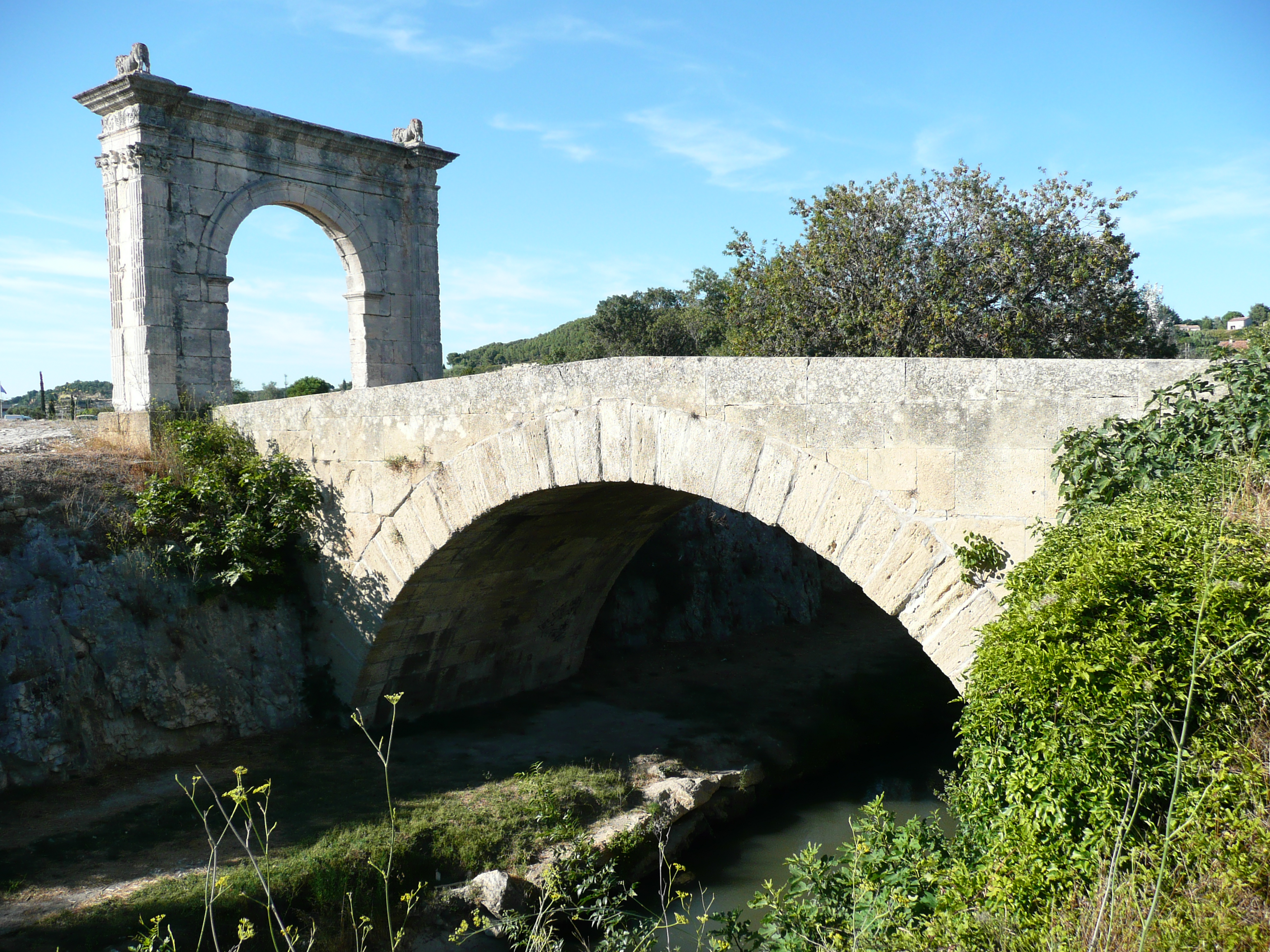 Pont Flavien, a Roman bridge in Saint-Chamas, France